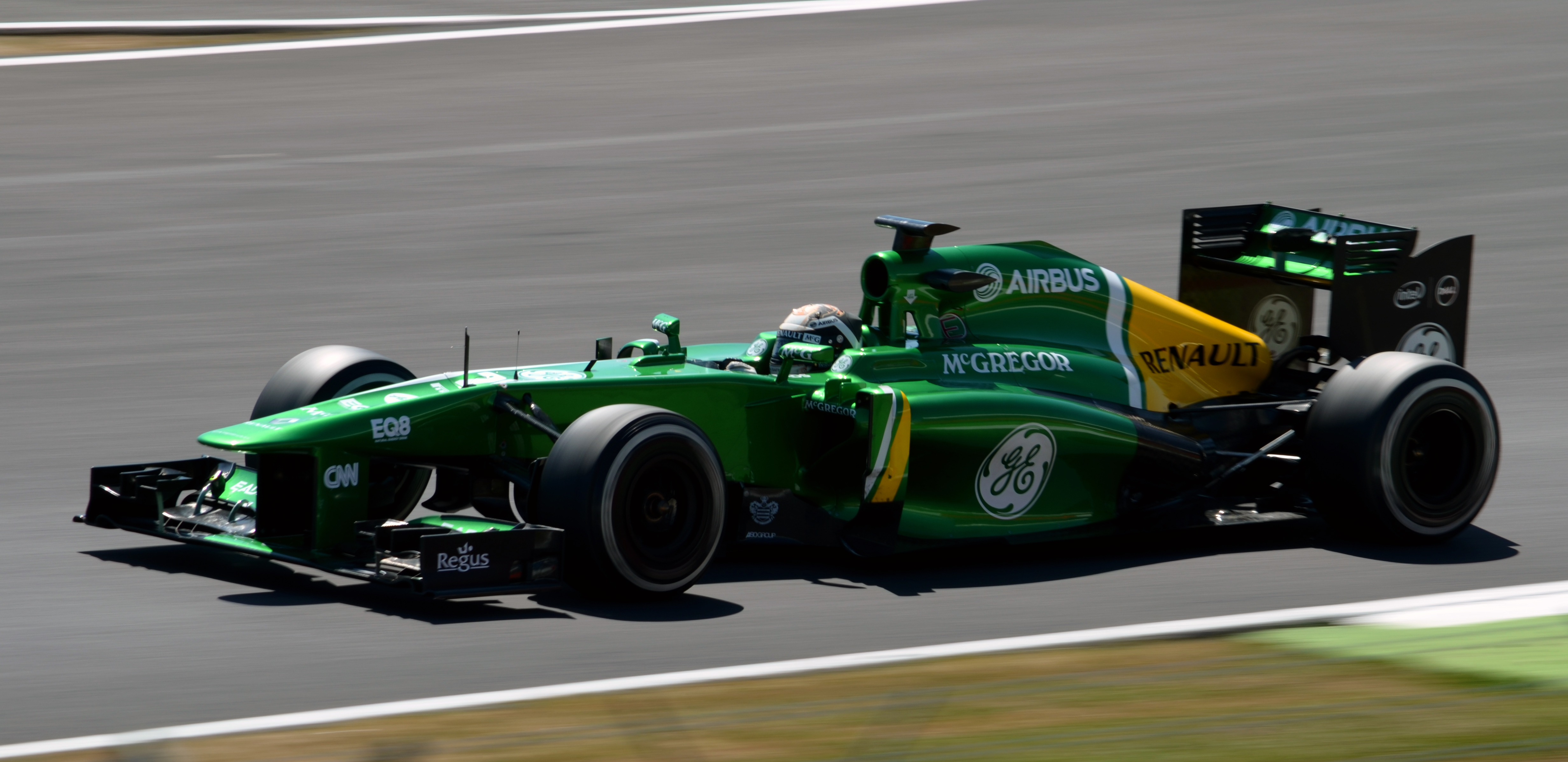 Giedo van der Garde driving the Caterham CT03 at the Young Drivers' Test at Silverstone.